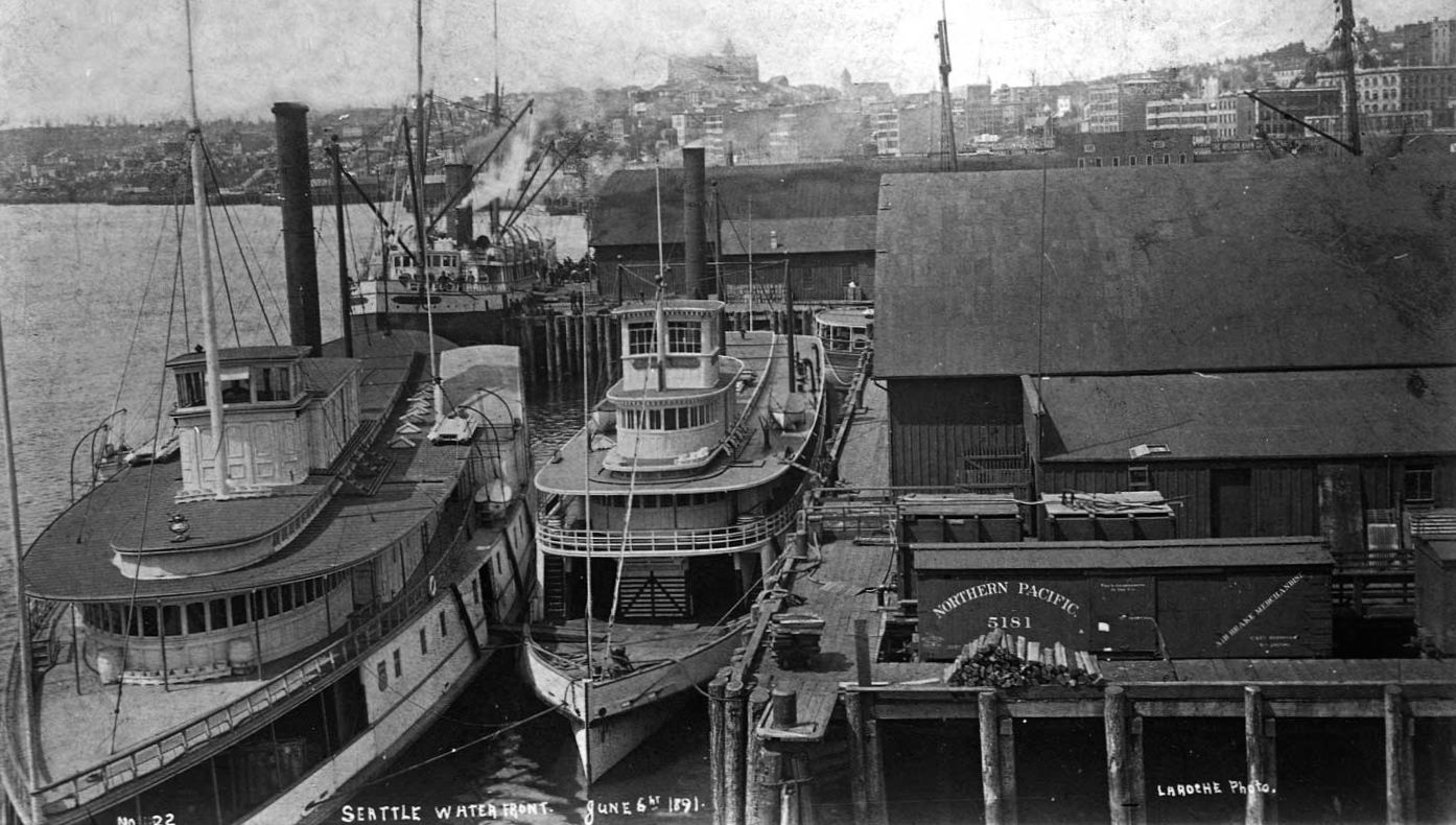 Steamers T.J. Potter (left) and Emma Hayward (right), at King Street Wharf, in Seattle, June 6, 1891.